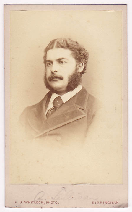 Carte de Visit of Arthur Sullivan from about 1870